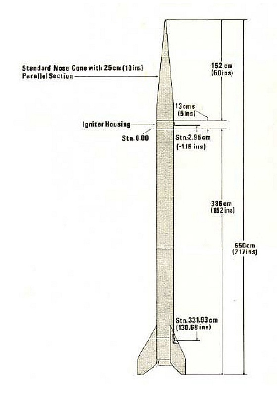 Black Brant III rocket scheme with dimensions.